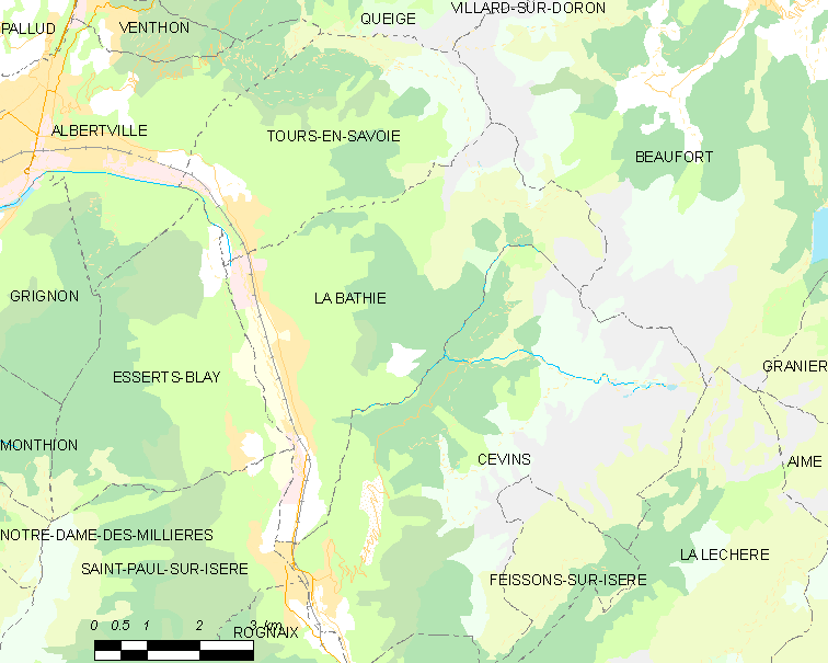 Map of French municipality